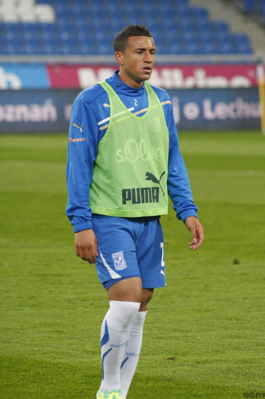 Dutch association football player Marciano Bruma